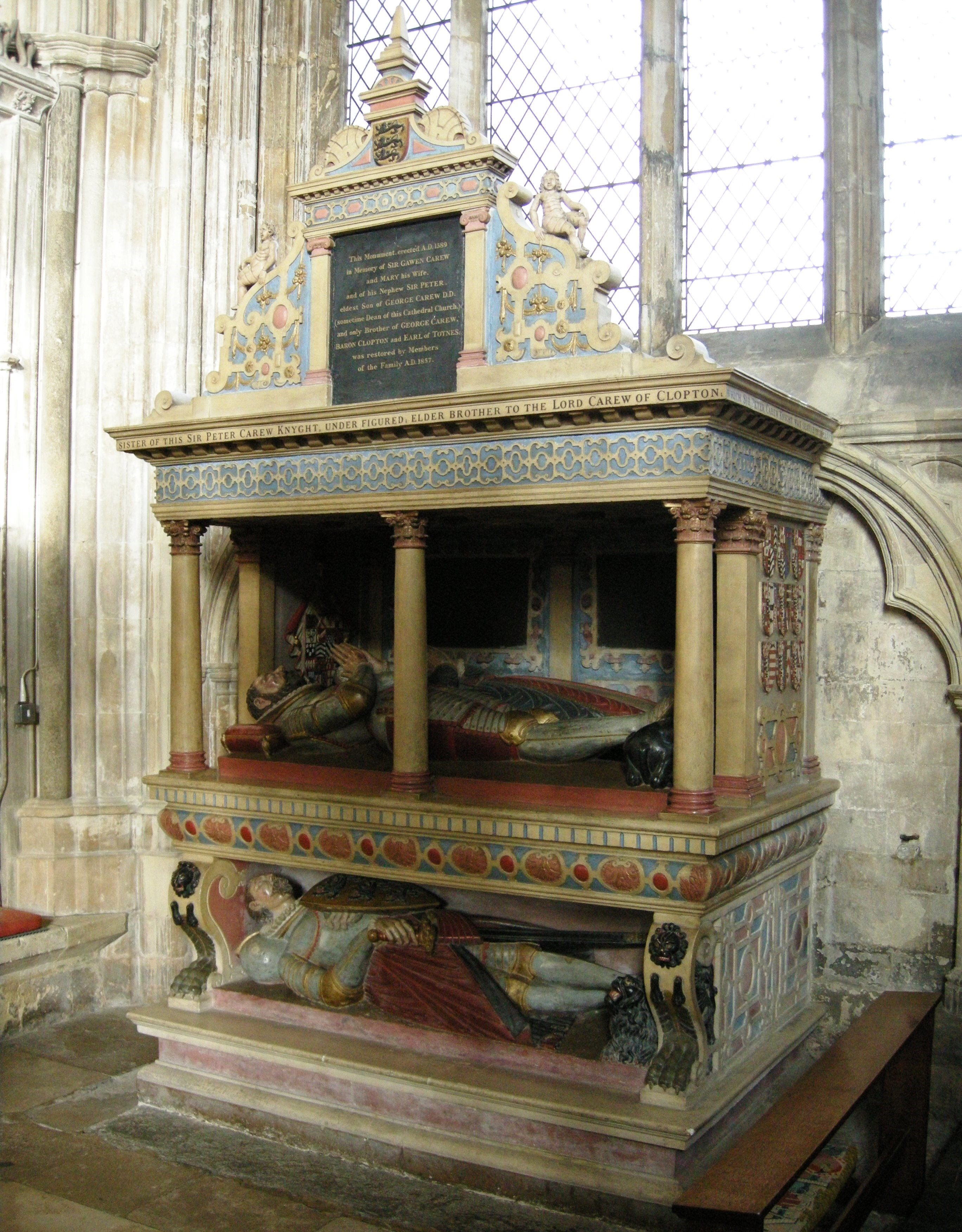 Tomb monument of Sir Gawen Carew (c.1508-1584) and his third wife, Elizabeth nee Norwich (d. 1594) in the chapel of St John the Evangelist, Exeter Cathedral. The monument is dated 1589, but was heavily restored in 1857. The third effigy, in a recess at the base, depicting an armoured man in cross-legged pose, has traditionally been identified as Sir Gawen's nephew, Sir Peter Carew (d. 1580), but more probably represents Adam Montgomery de Carew, the Carew family's semi-legendary founder.